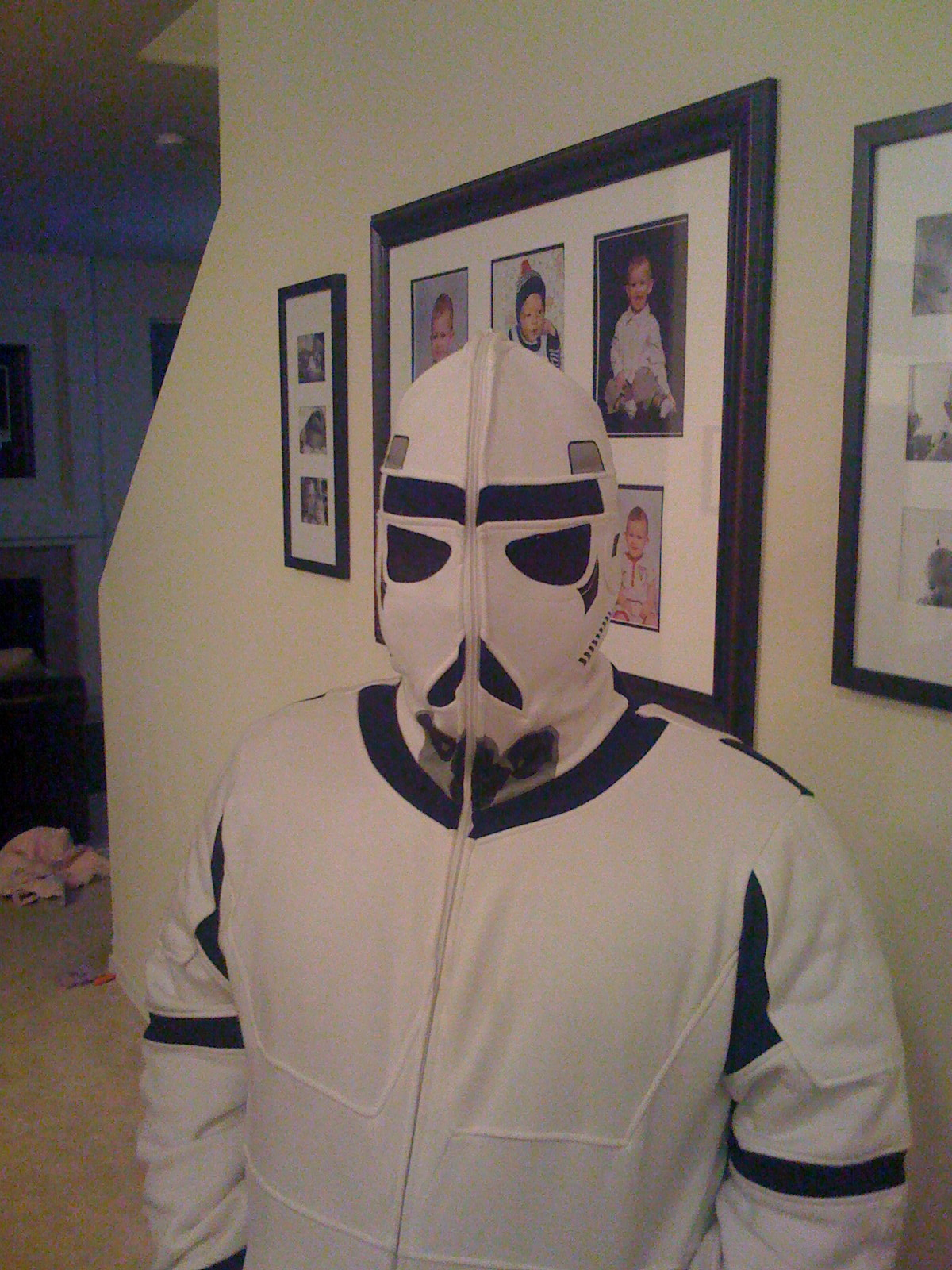 This guy had an awesome hoodie that zipped all the way to the top of the hood to look like a storm trooper, with the black patches over the eyes & mouth being a mesh so he could see & breathe easily.